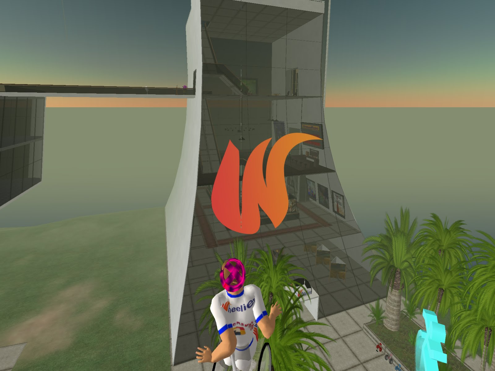 Wheelies 6